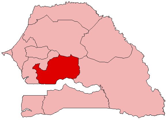 Map of Kaolack region, Senegal.